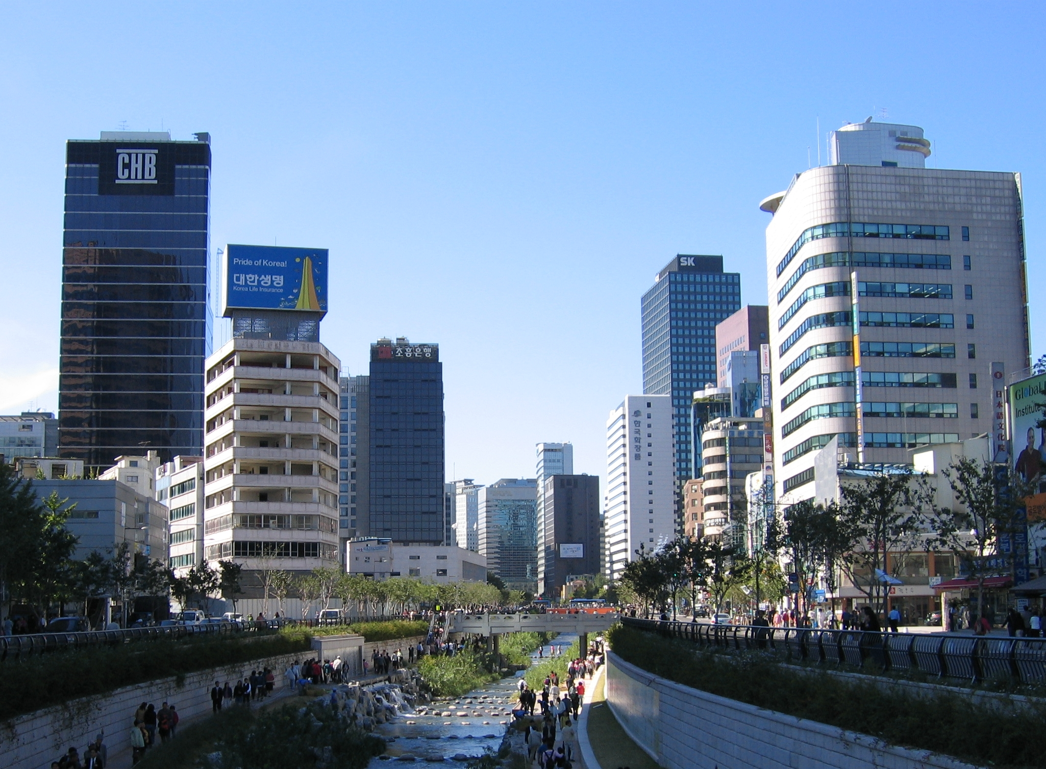 Impression of Seoul